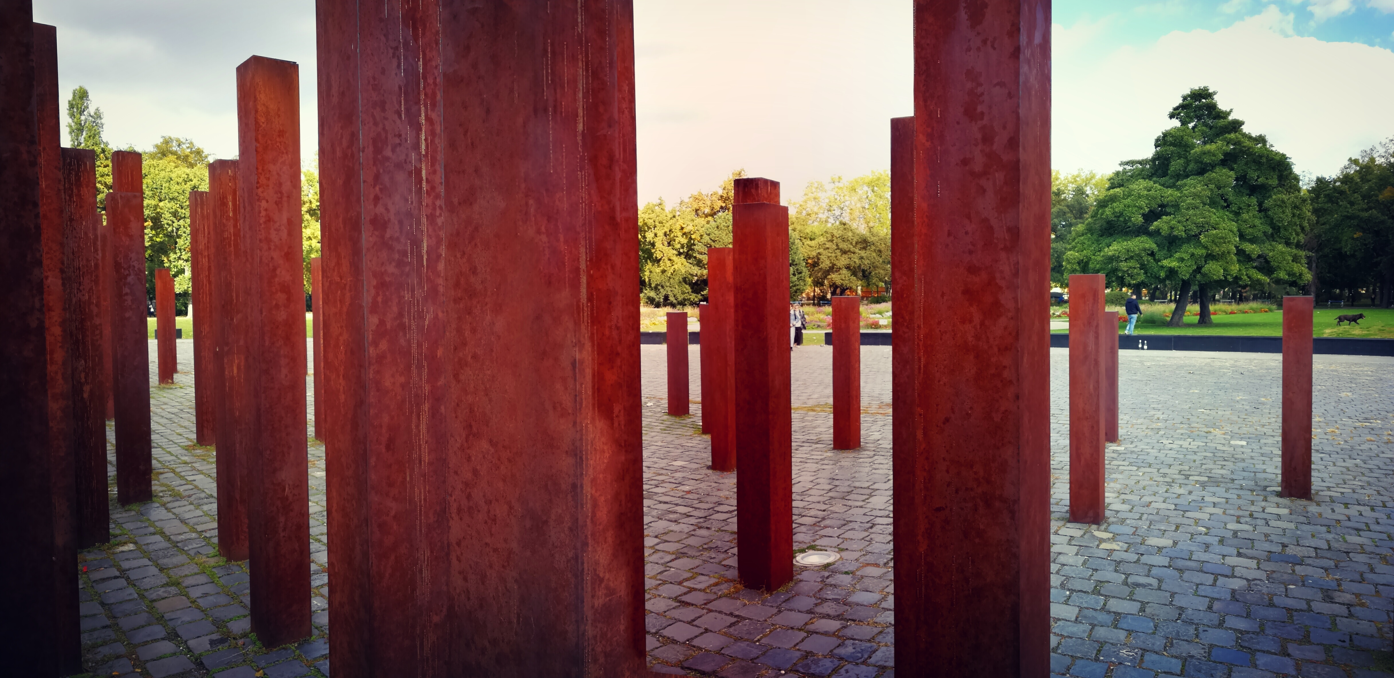 Memorial to the 1956 Revolution, Ötvenhatosok tere, Budapest, Hungary.